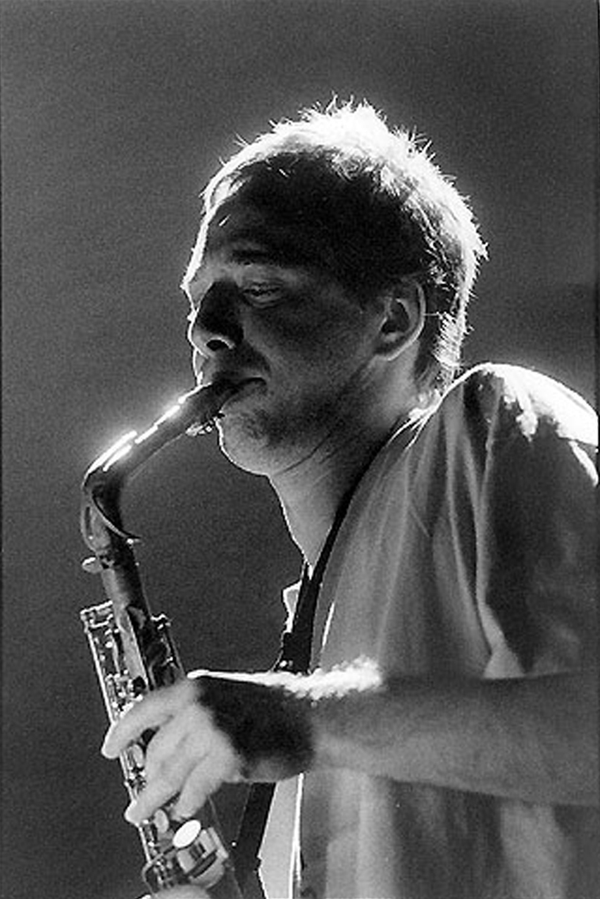 John Zorn